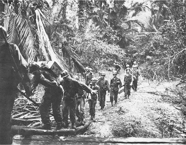 Tanahmerah Bay (New Guinea), Inland-jungle: Men of the 1st Battalion, 19th Infantry, carrying supplies forward (Operation Reckless, April 1944)